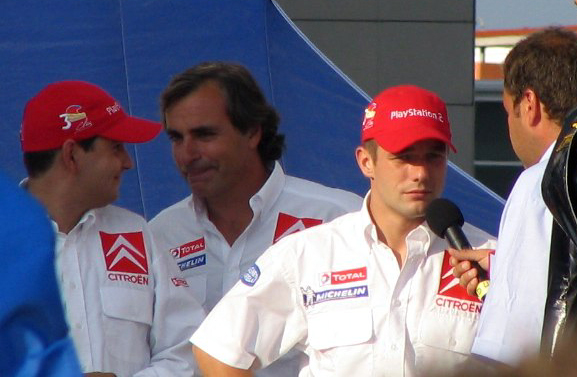 Daniel Elena, Carlos Sainz and Sebastien Loeb in Rally Finlanda 2004